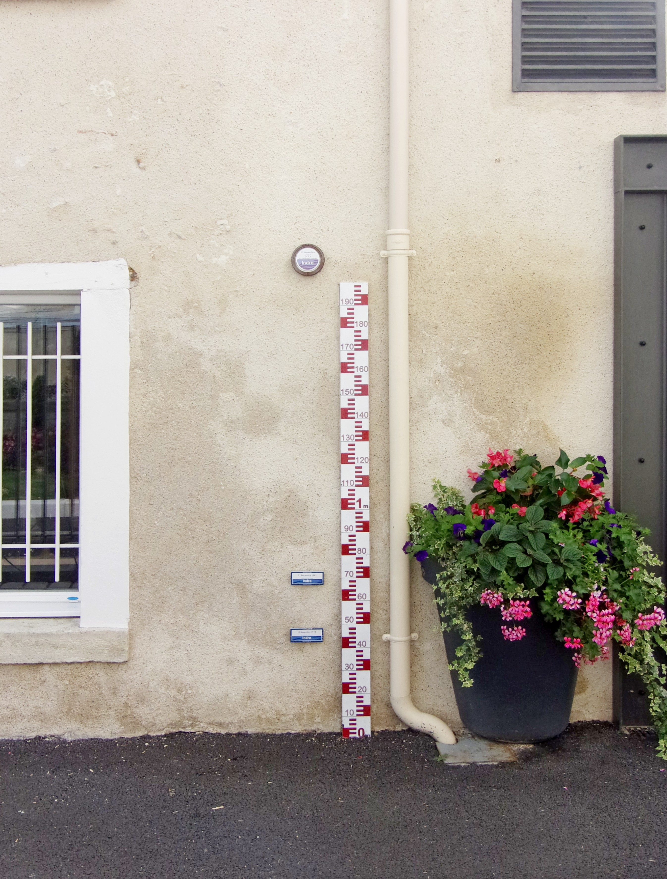 Repère de crue